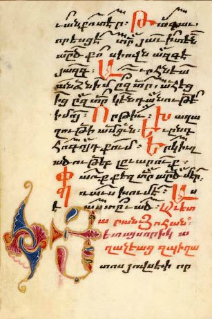 page from a manuscript of Armenian Breviary